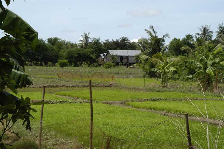 Rice fields on west side of Mekong. Prey Veng, Cambodia